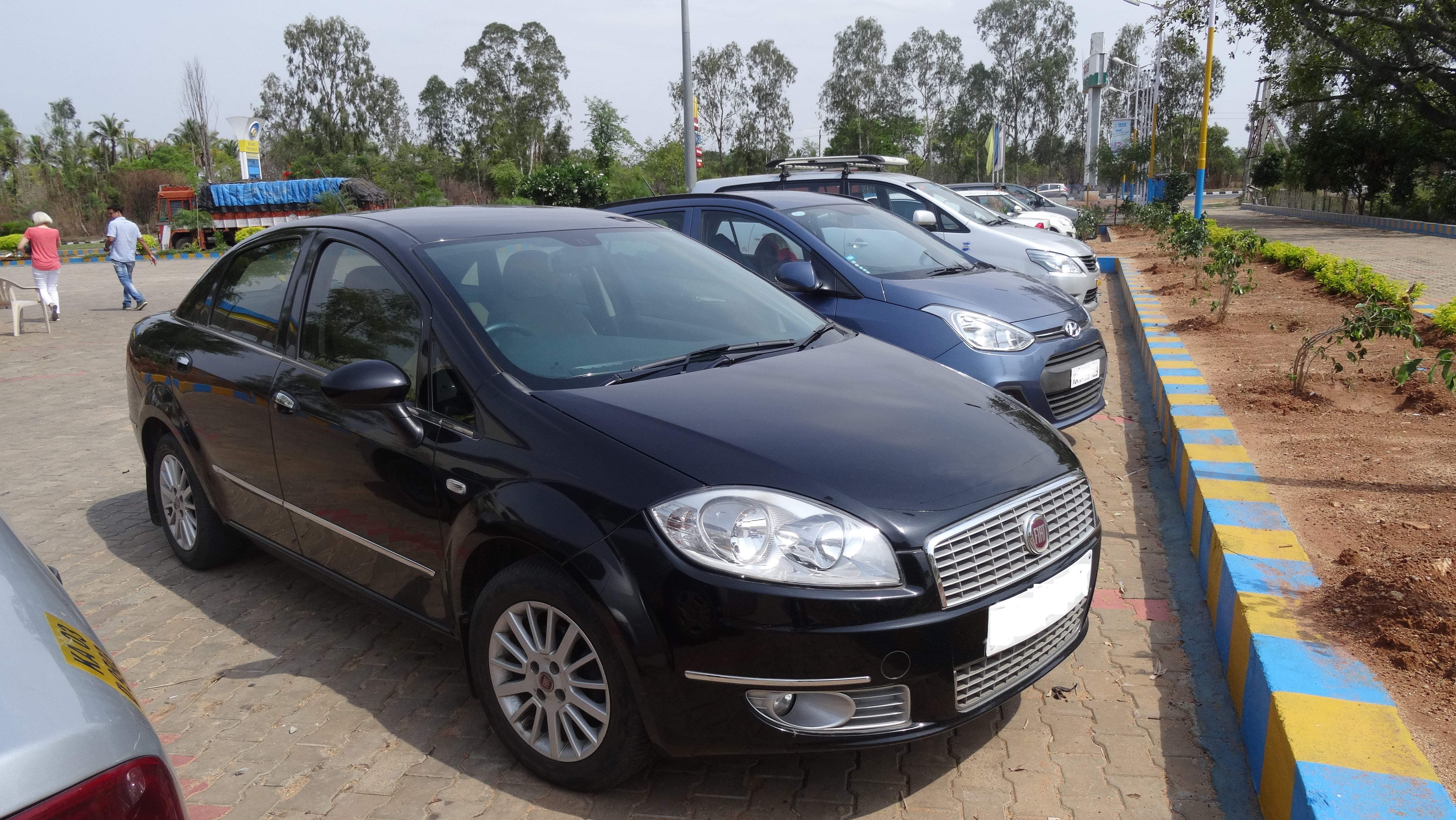 Fiat Linea sedan evolved from Grade Punto platform. Emotion variant features Alloy wheels, Airbags, ABS, Automatic climate control, Driver, Passenger seat arm rest, Music System with bluetooth phone connectivity.